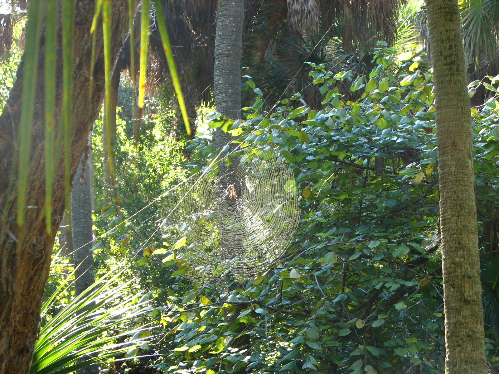 An adult, female Nephila clavipes spider (golden silk orb-weaver) sitting on her web, Merritt Island National Wildlife Refuge, Florida.